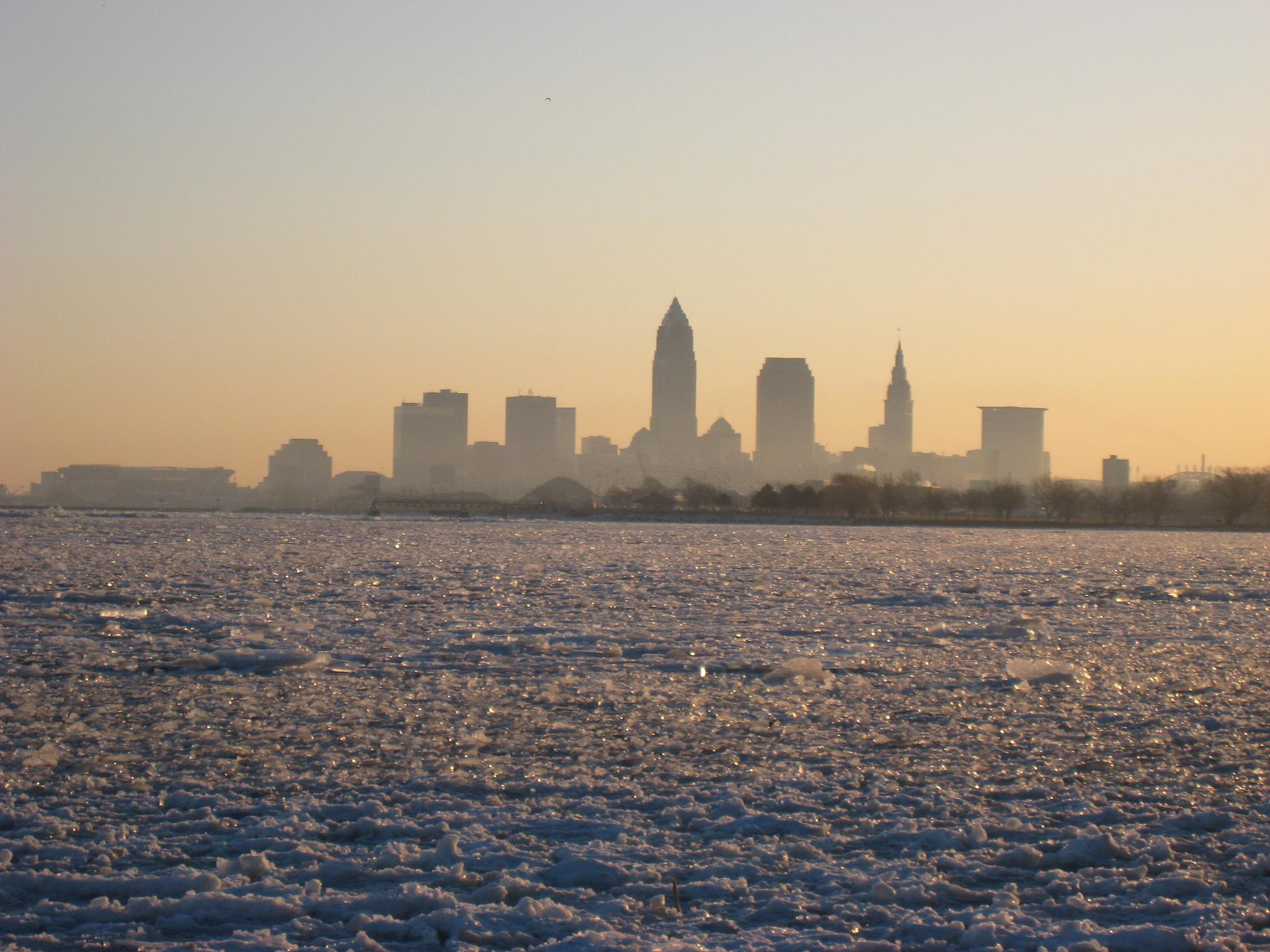 View over the frozen Lake Erie to Cleveland, Ohio at the beginning of March 2009